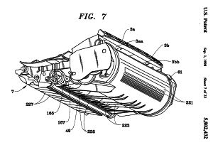 This is a drawing of a toner cartridge that Lexmark asserted was infringed in the litigation described in Lexmark Int'l Other information US patent drawing